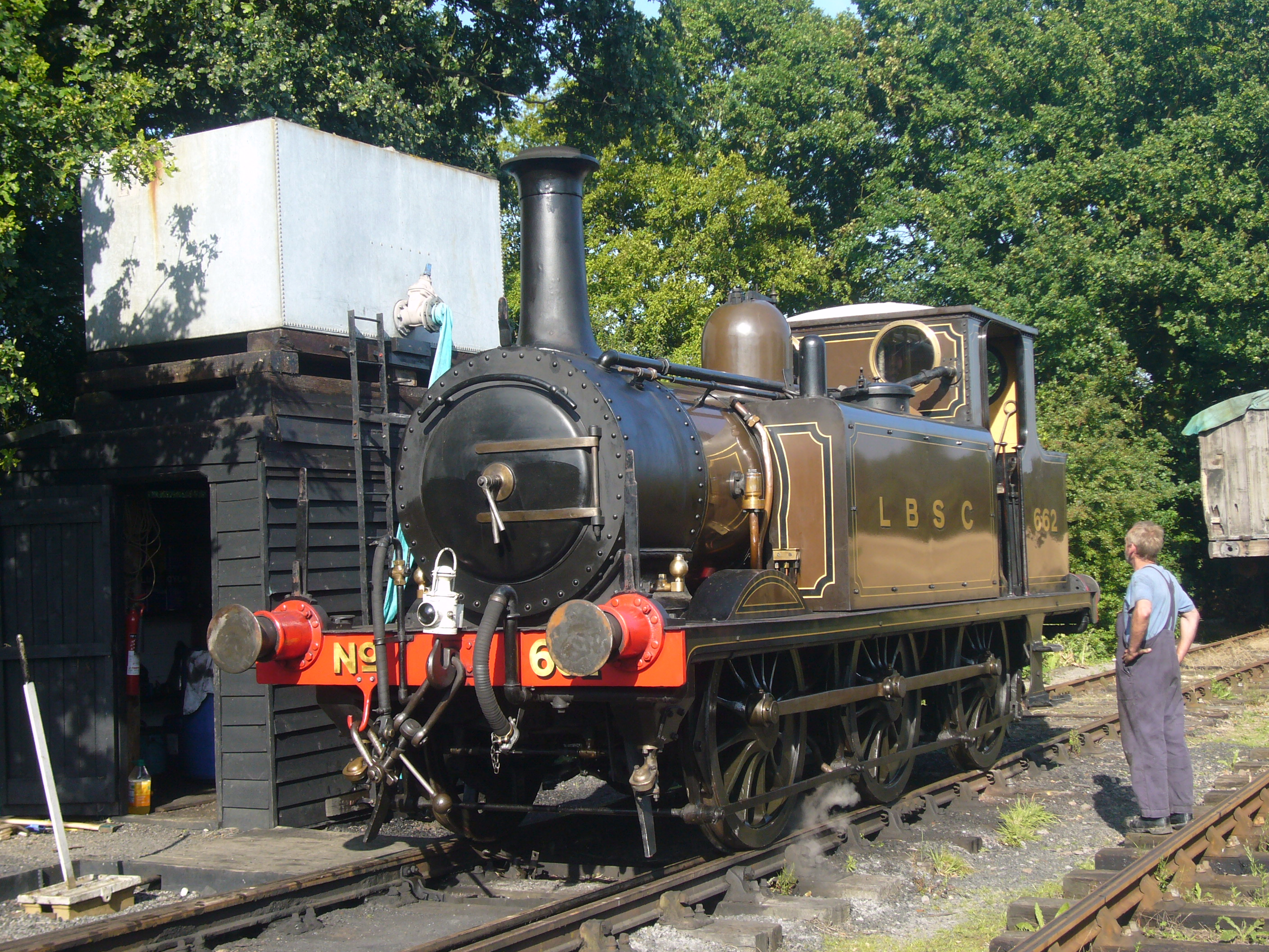 Taken By Nick Fowler on 6.08.2007